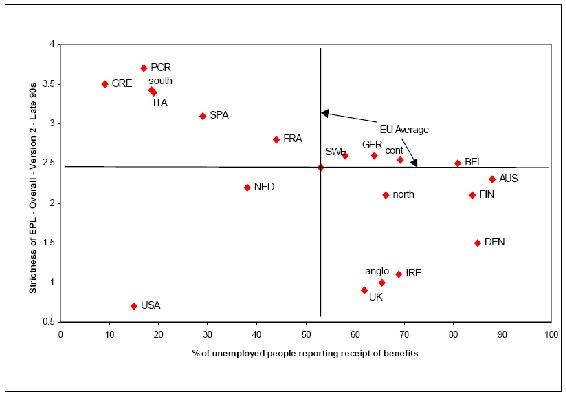 Graph done by user Jorditxei using data from OECD